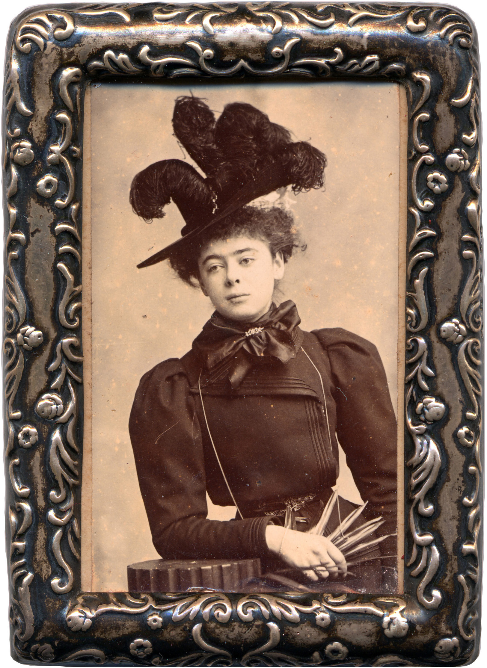 Circa 1908, unknown photographer, probably in London, England